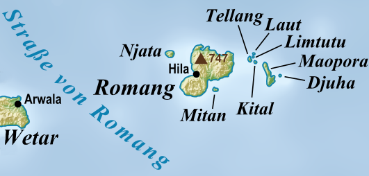 Map of Romang